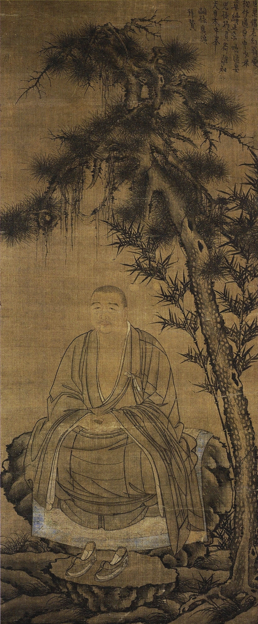 Unidentified Artist, Portrait of the Monk Zhongfeng Mingben (123.5 x 51.3 cm). 14 cent. Lent by Shôkoku-ji, Jishô-in, Kyoto